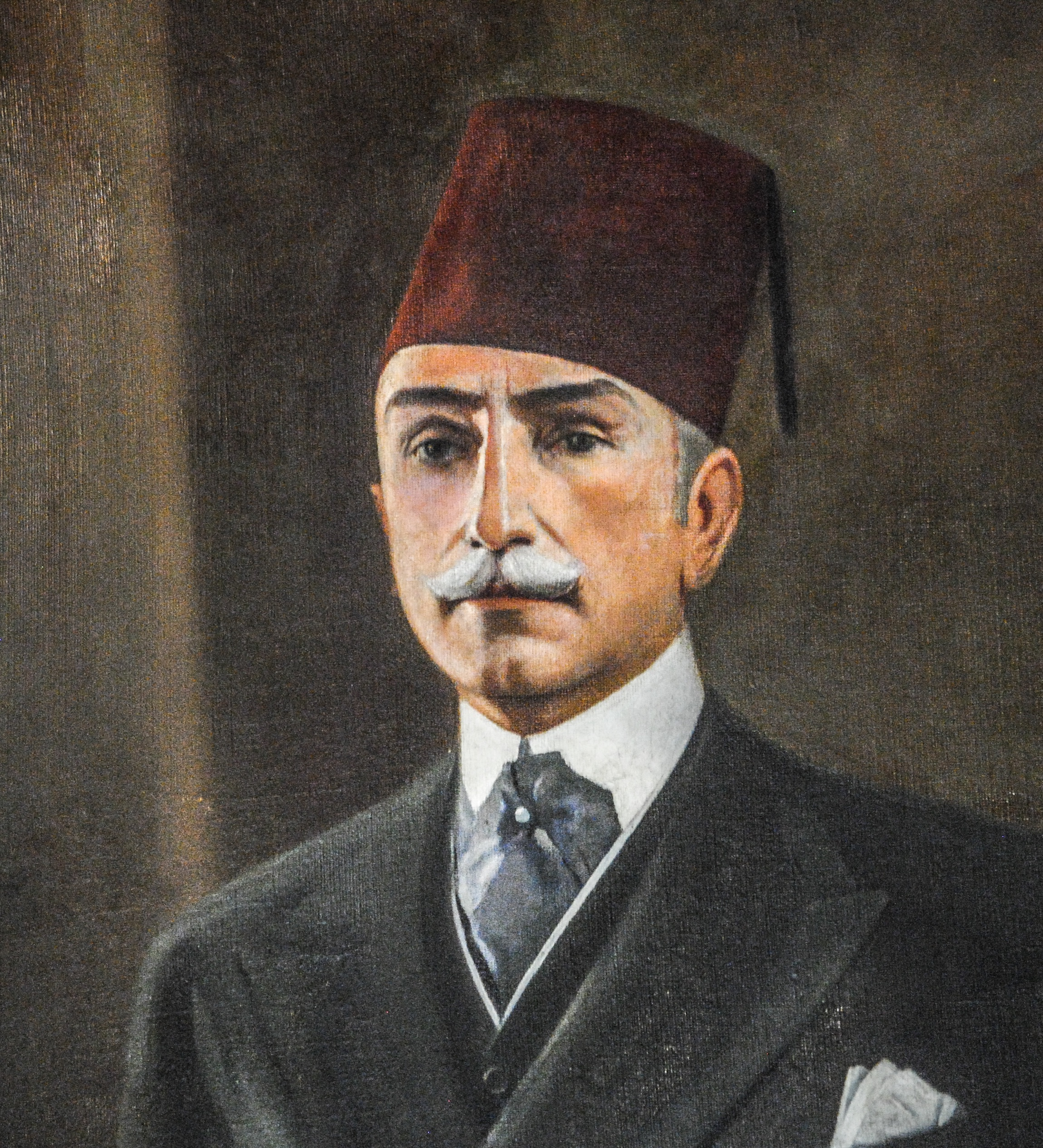 Portrait of Mohamed Ali Tawfik in Al-Manyal Palace